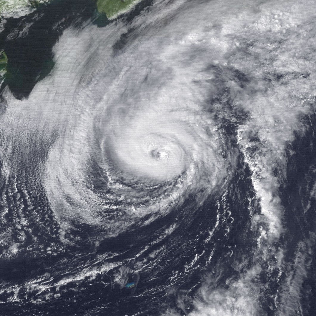 Hurricane Debby intensifying in the north Atlantic on September 17, 1982